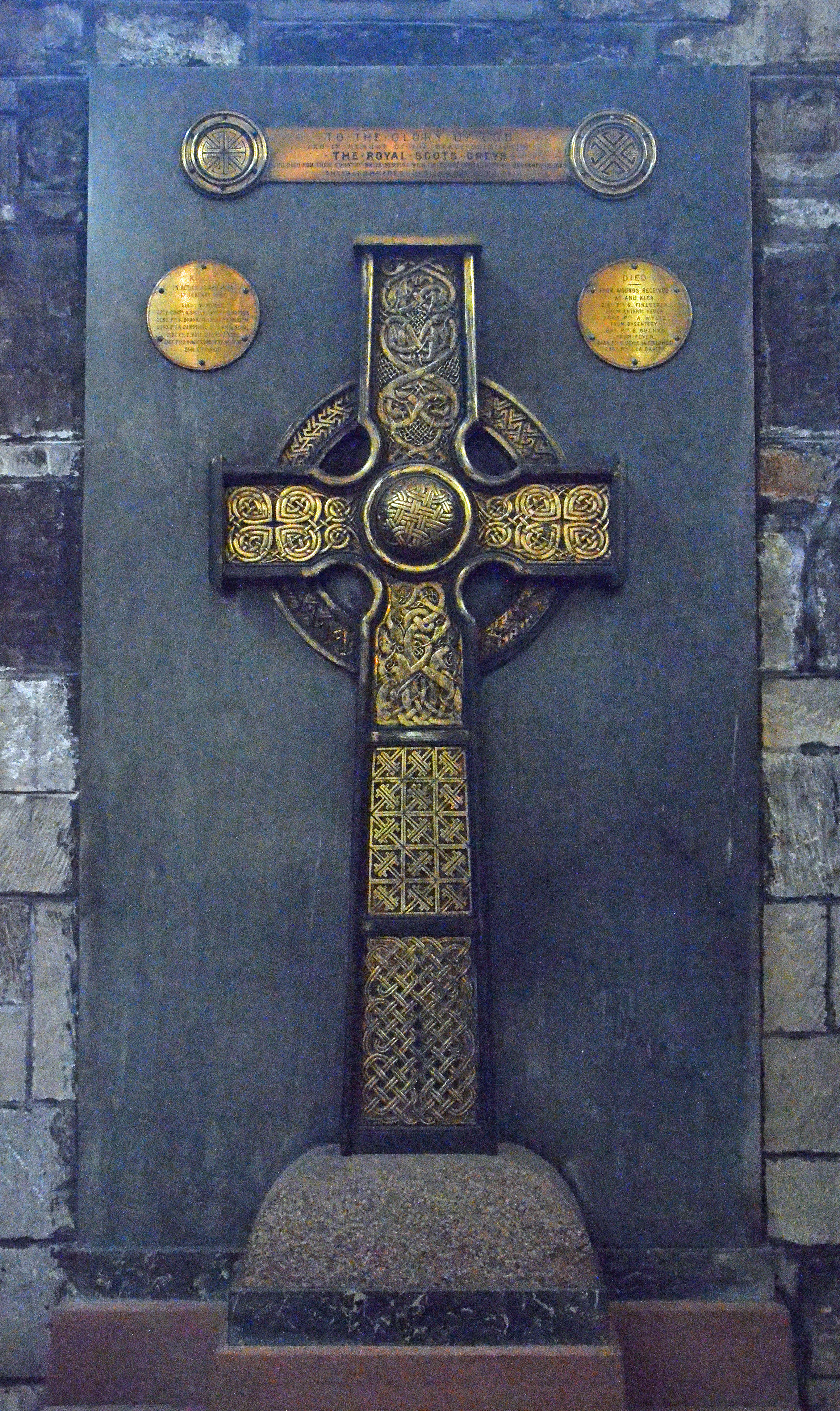 Celtic cross in St Giles cathedral Edinburgh. A war memorial to the Royal Scots Greys.